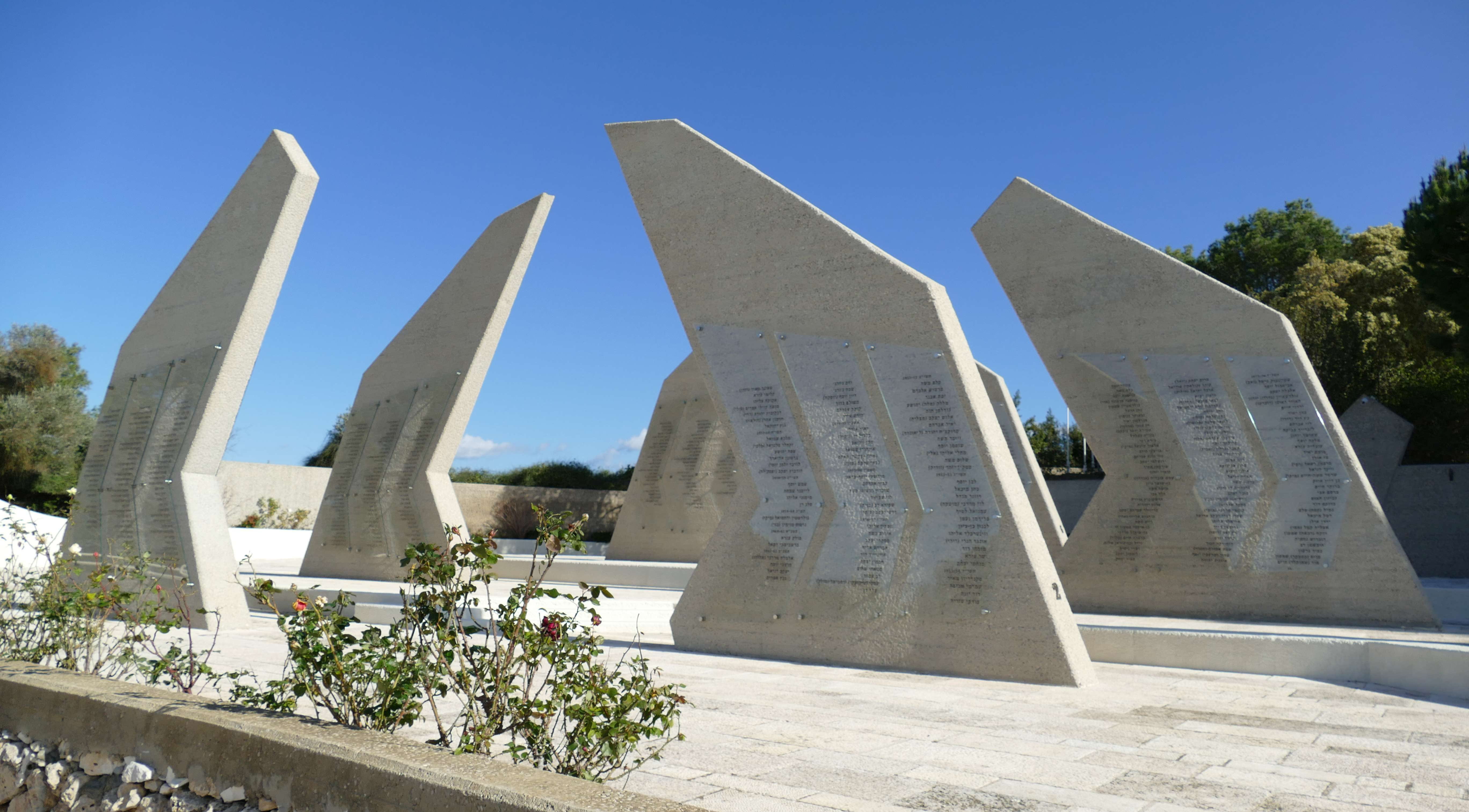 Beyt ha-Totchan Museum, Zikhron Yaakov, Israel.